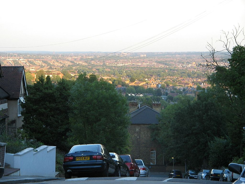 View from the top of Forest Hill in London, looking south. Photo taken by Will Fox in September 2005 and released to the public domain.